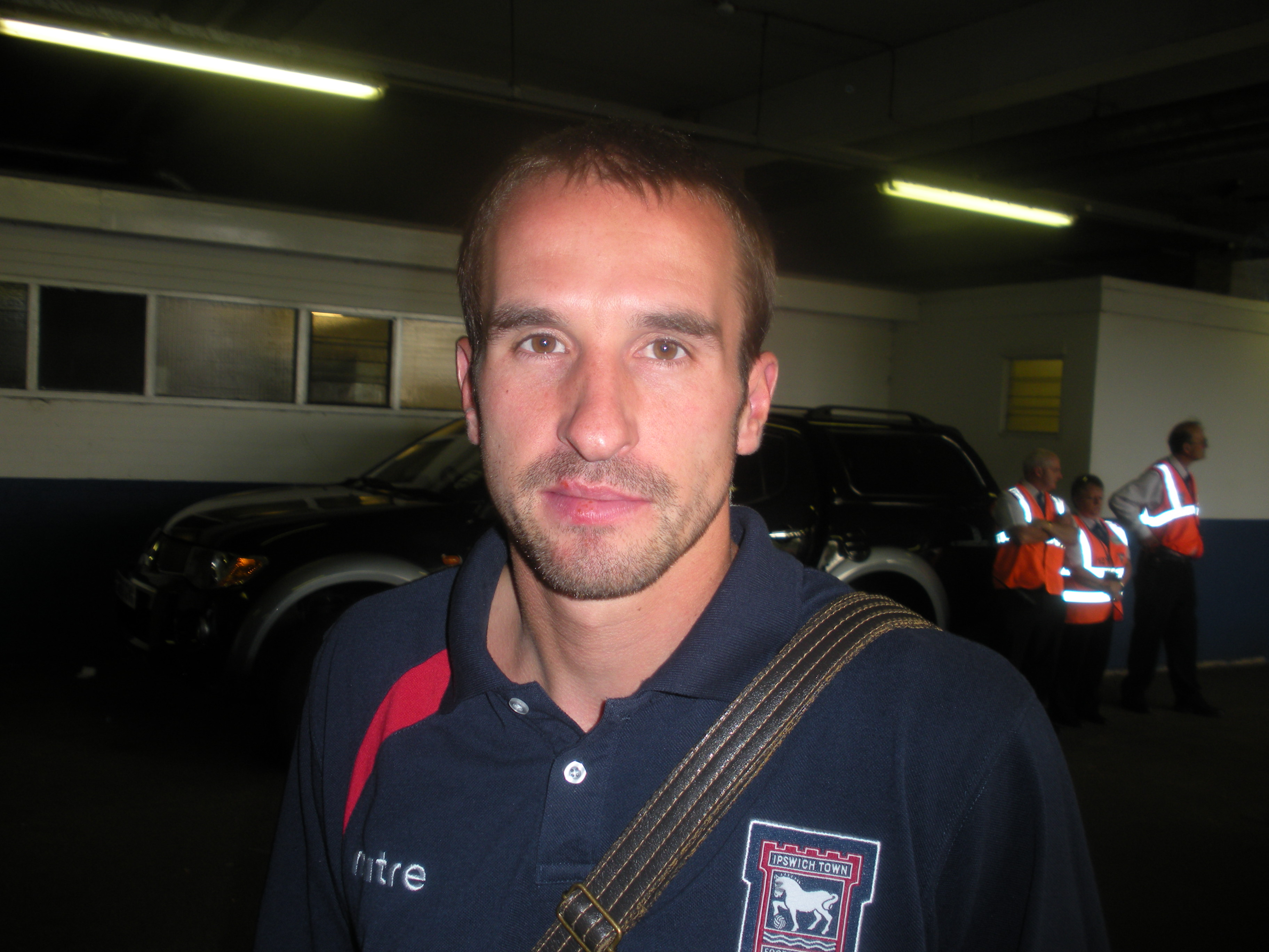 David Wright, Ipswich Town player. Author gives permission for this file to be used by Simply Blue